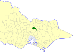 Location of the Shire of Goulburn within Victoria.